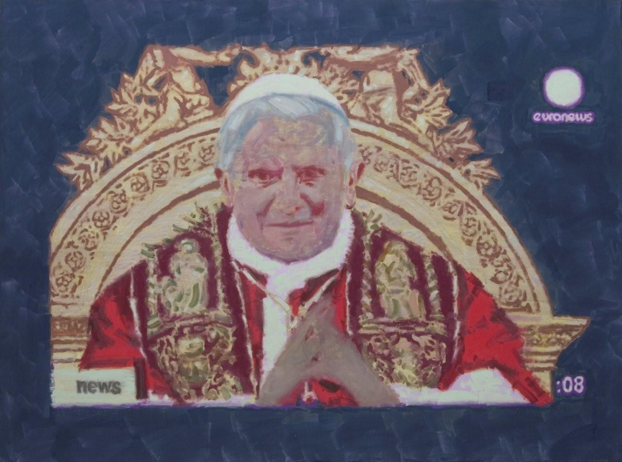 "25.12.2009" paiting depicting Pope Benedict XVI, created in December 2009 by Oleg Tistol, a Ukrainian contemporary art painter.